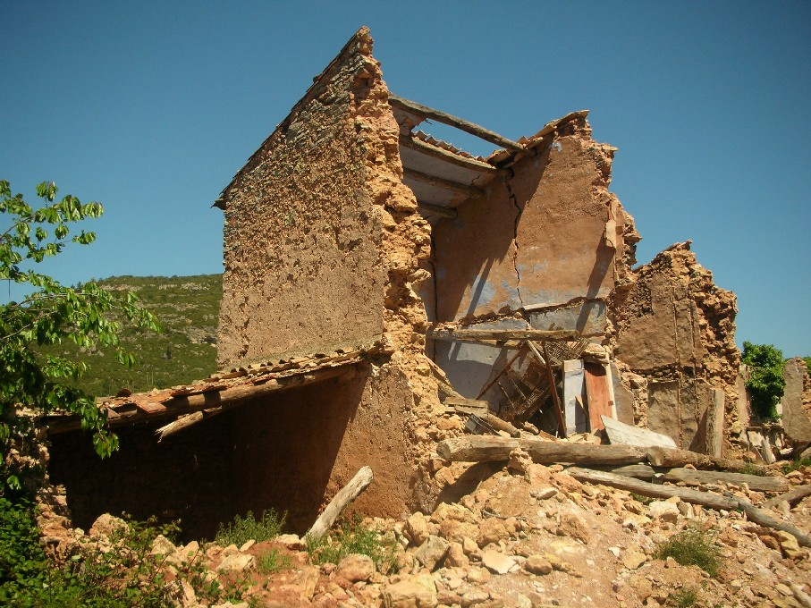 Fatxes, ghost town near Vandellòs, Baix Camp